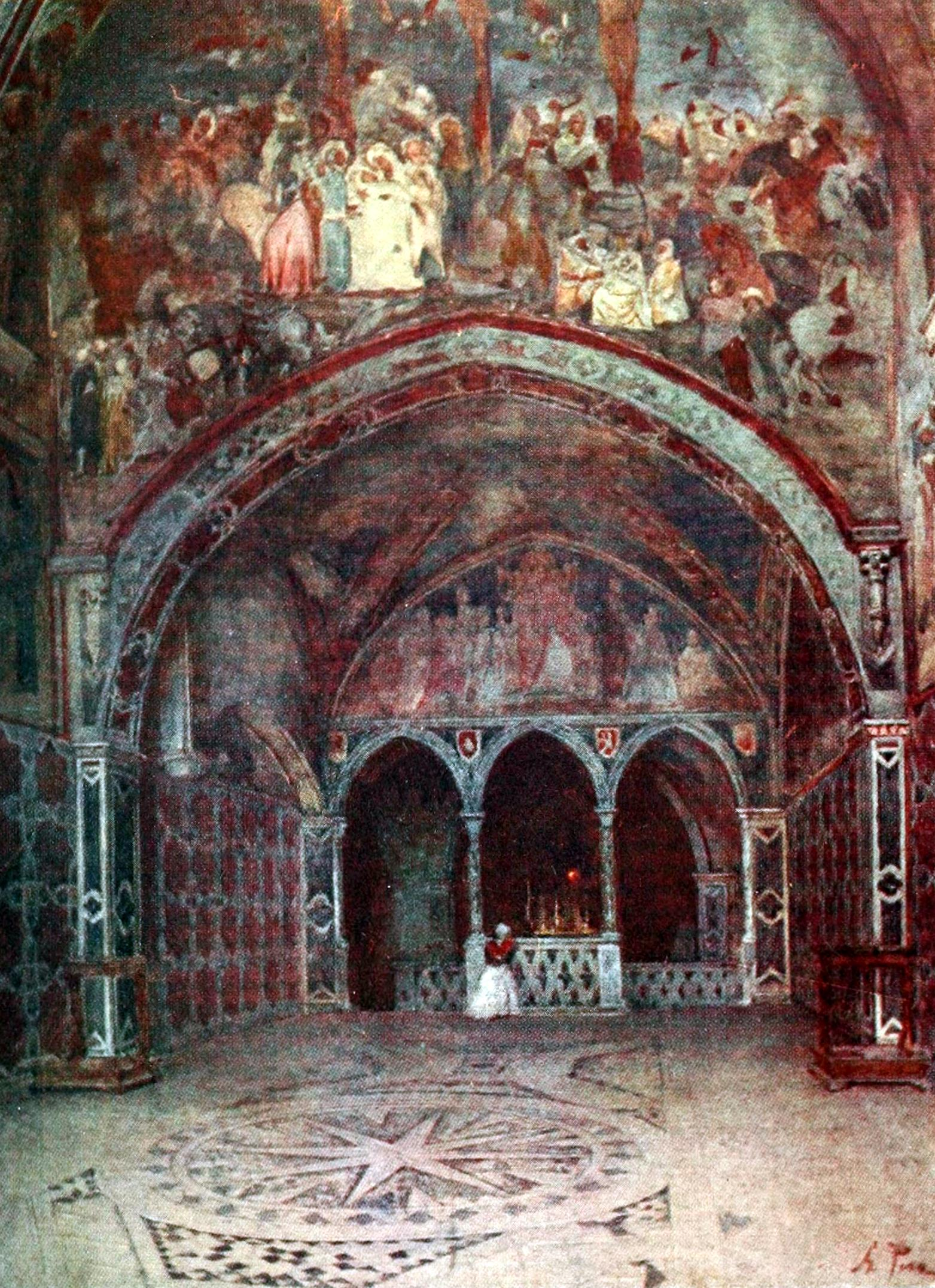 A chapel in St. Benedict's, Subiaco